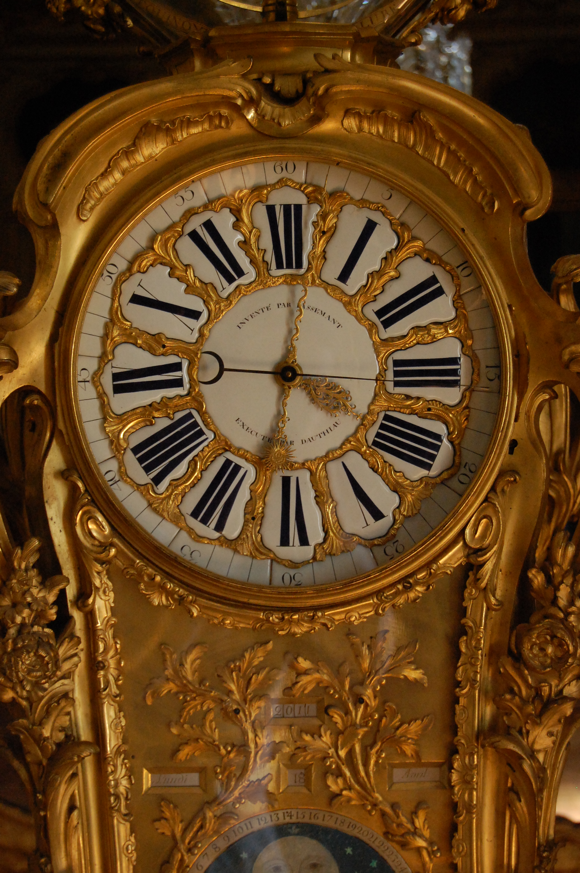 Astrological clock by Passemant